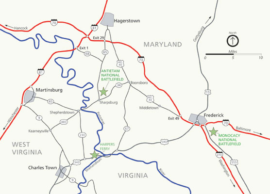 Antietam area map. directions, Sharpsburg.